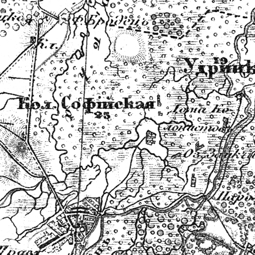 Sofiivka on the map "Военно-топографическая карта Российской Империи" (known as "Schubert's map"), XX 5, 1866-1887 (issued in 1911).